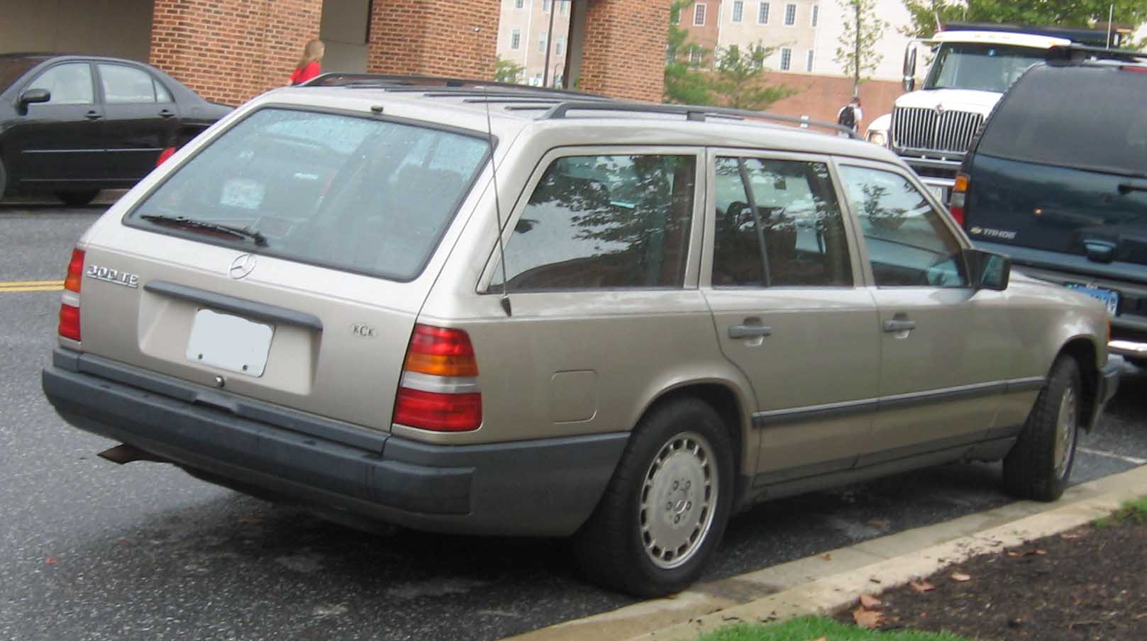 Mercedes-Benz 300TE photographed in College Park, Maryland, USA.